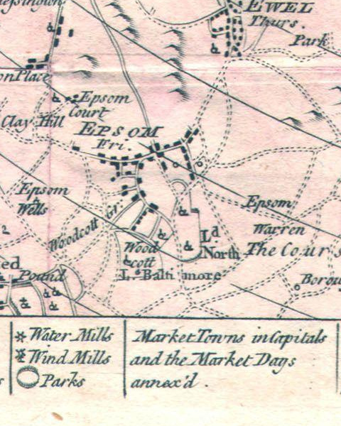 Map of Epsom and surroundings showing the location of the estates of Lord Baltimore and Lord North. Detail of a map of London and surroundings from The Gentleman's Magazine, 1764.